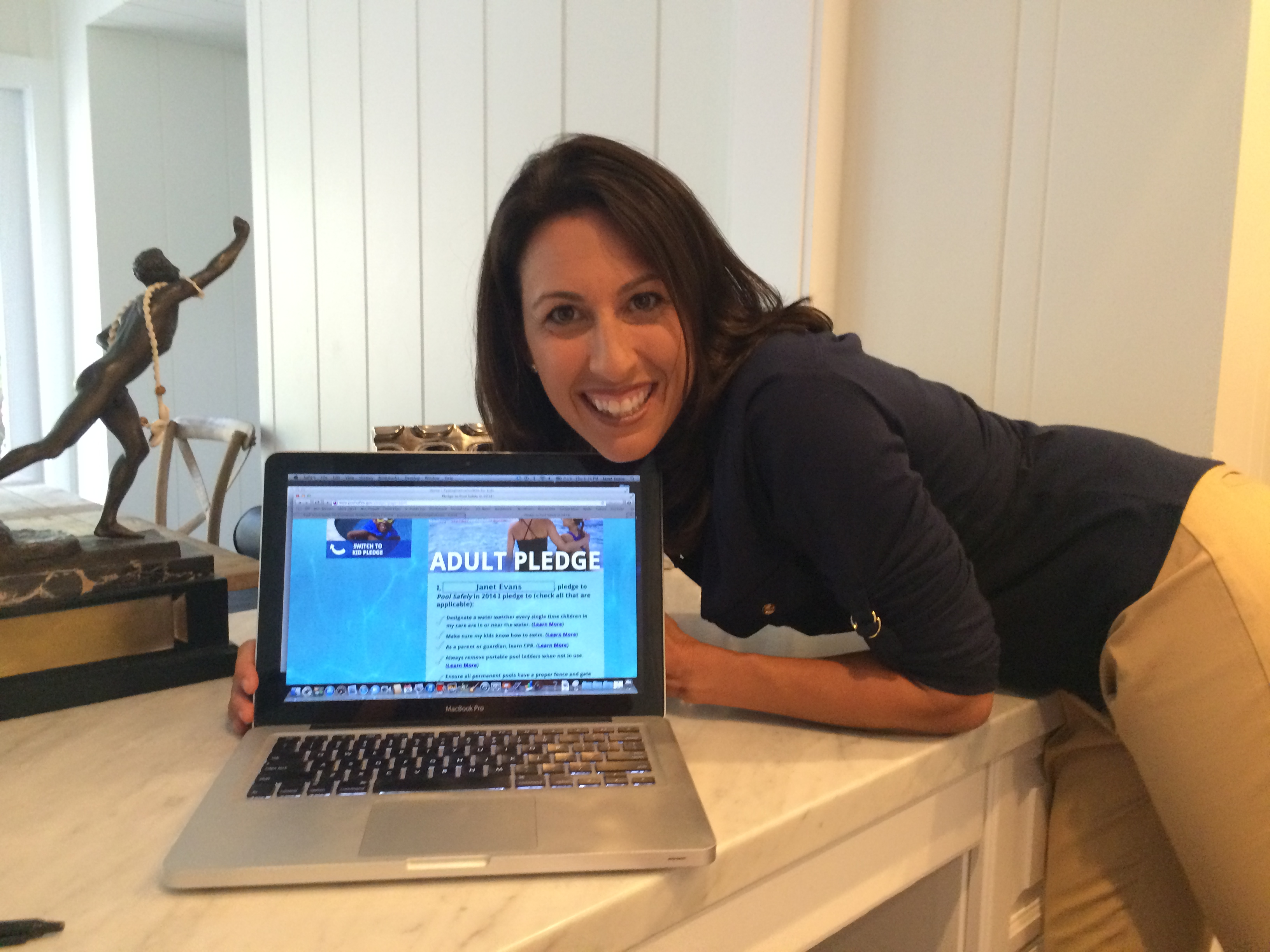 5-time Olympic medalist Janet Evans takes the Pool Safely Pledge